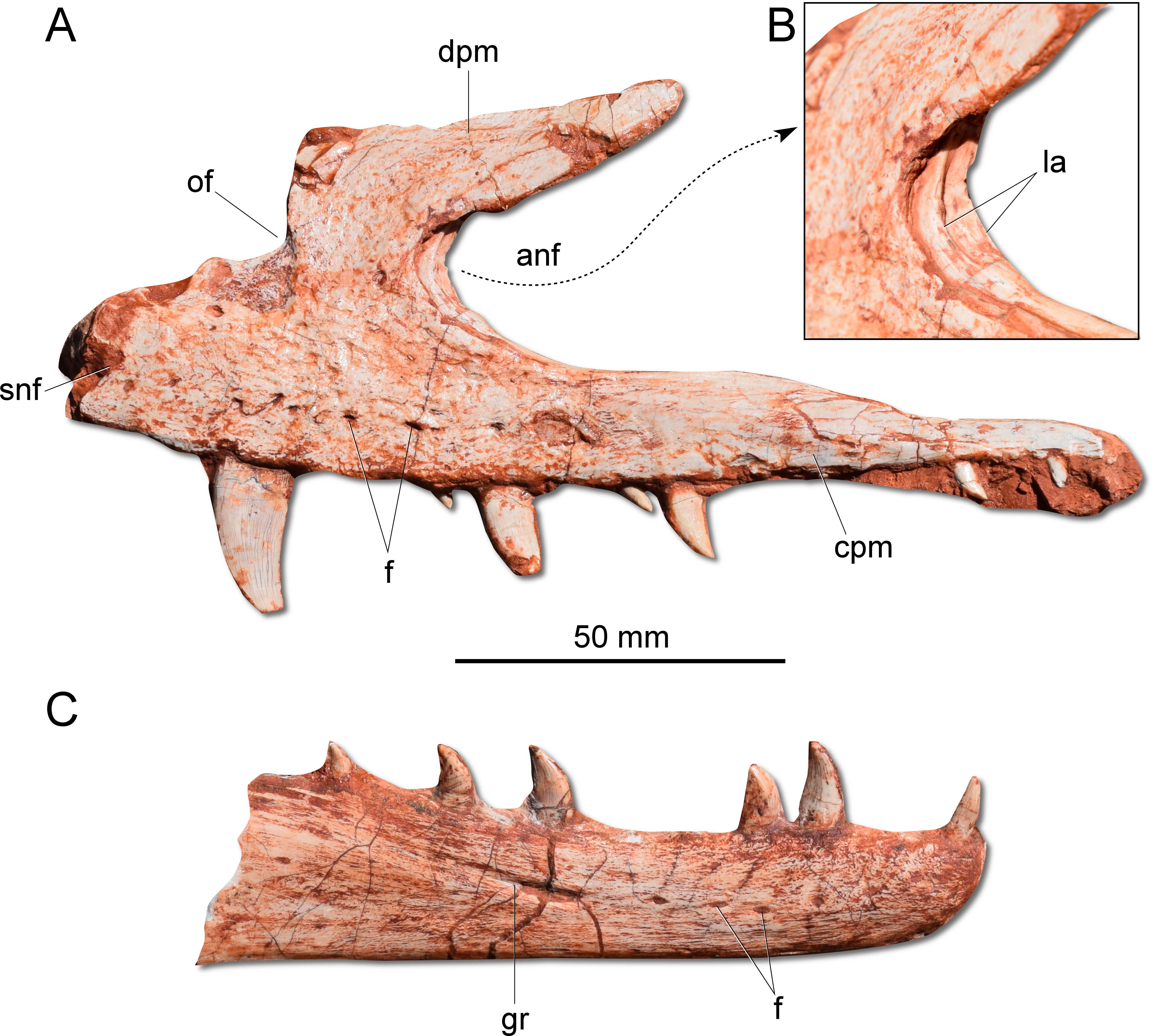 Figure 3: Photographs of selected skull bones of CAPPA/UFSM 0009. (A) Left maxilla in lateral view. (B) Magnification of the antorbital fossa of the left maxilla. (C) Right dentary in lateral view. anf, antorbital fenestra; cpm, caudal process of the maxilla; dpm, dorsal process of the maxilla; f, foramen; gr, groove; la, lamina; of, oval fenestra; snf, subnarial foramen.